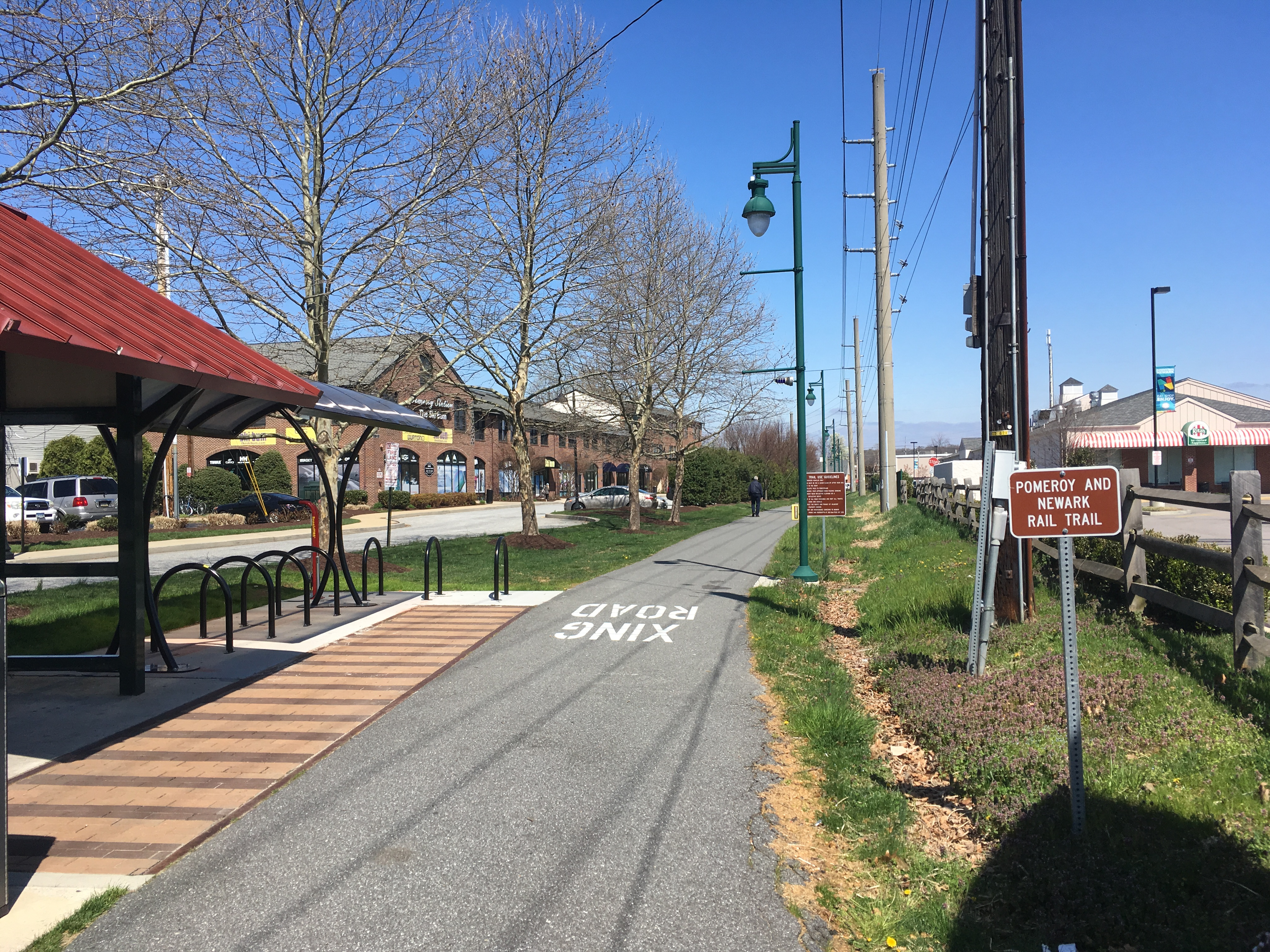 The Pomeroy and Newark Rail Trail north of Westbound Delaware Route 273 (East Main Street) in Newark, Delaware